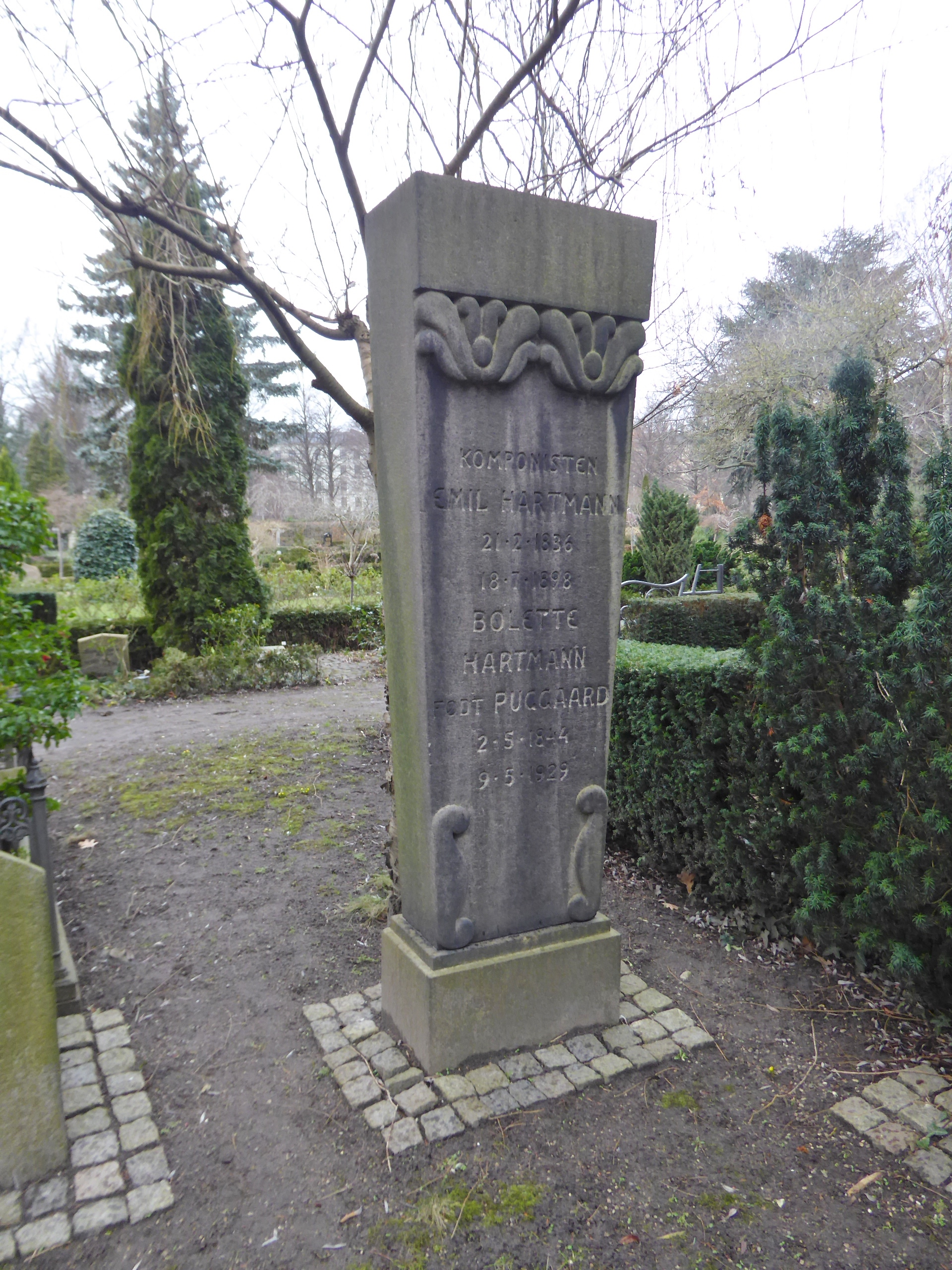 Grave of the composer Emil Hartmann (1836-1898) at Holmens Kirkegård in Copenhagen.